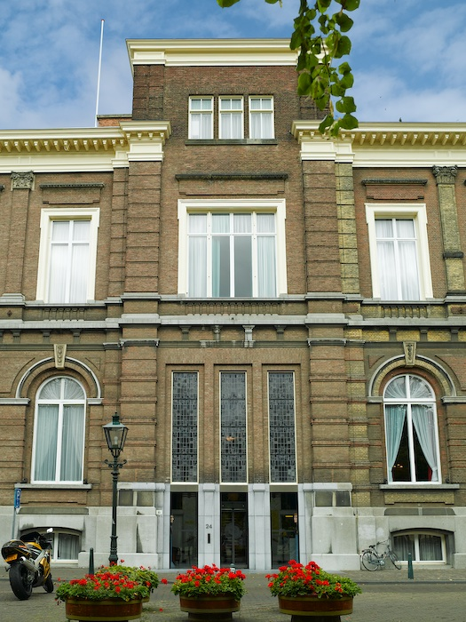 Societeit De Witte